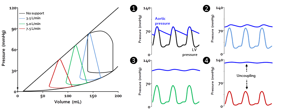 Describes increased levels of cardiac unloading and how this uncouples ventricular function from aortic pressure.